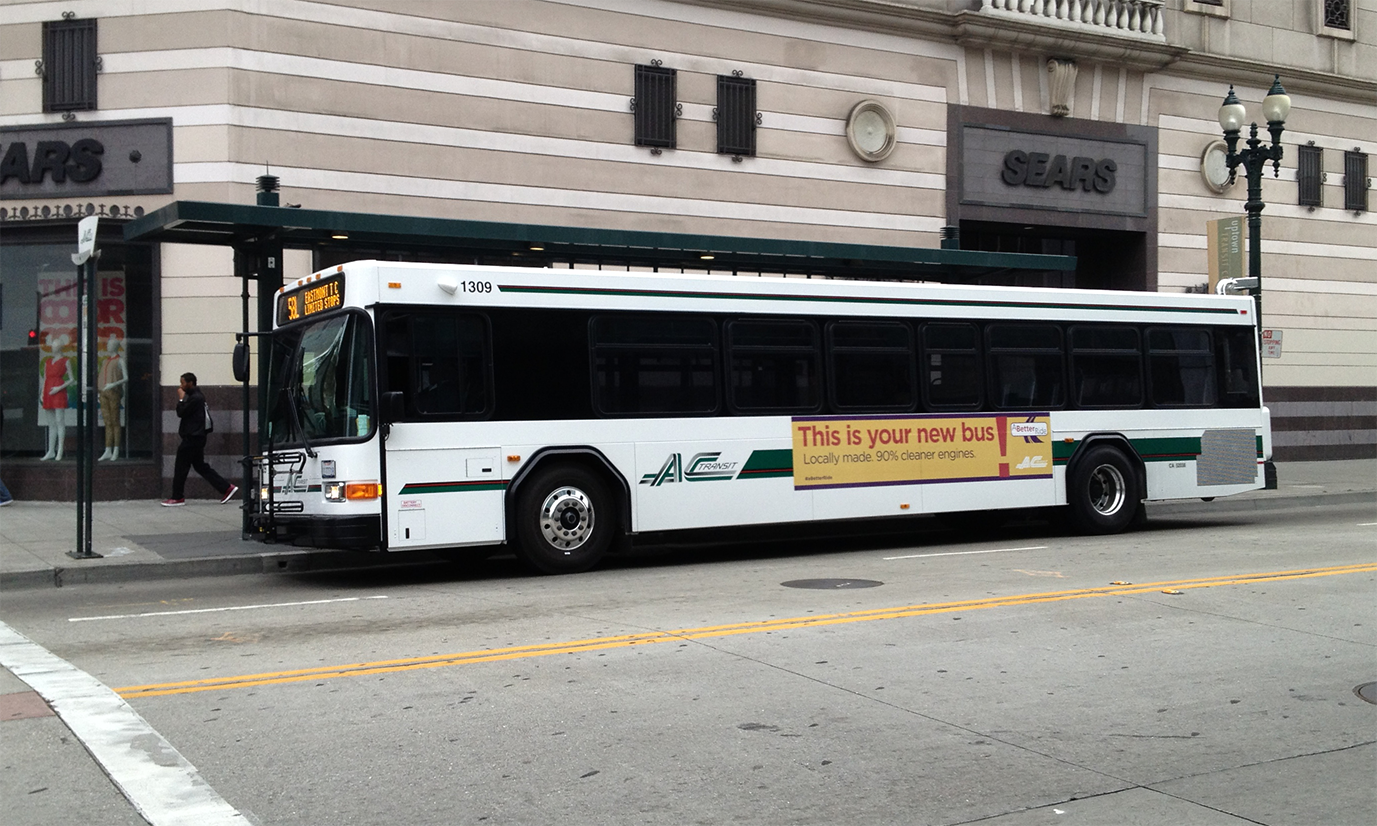 AC Transit Gillig low-floor bus #1309 on line 58L eastbound at 20th St. and Broadway in Oakland (Uptown Transit Center).